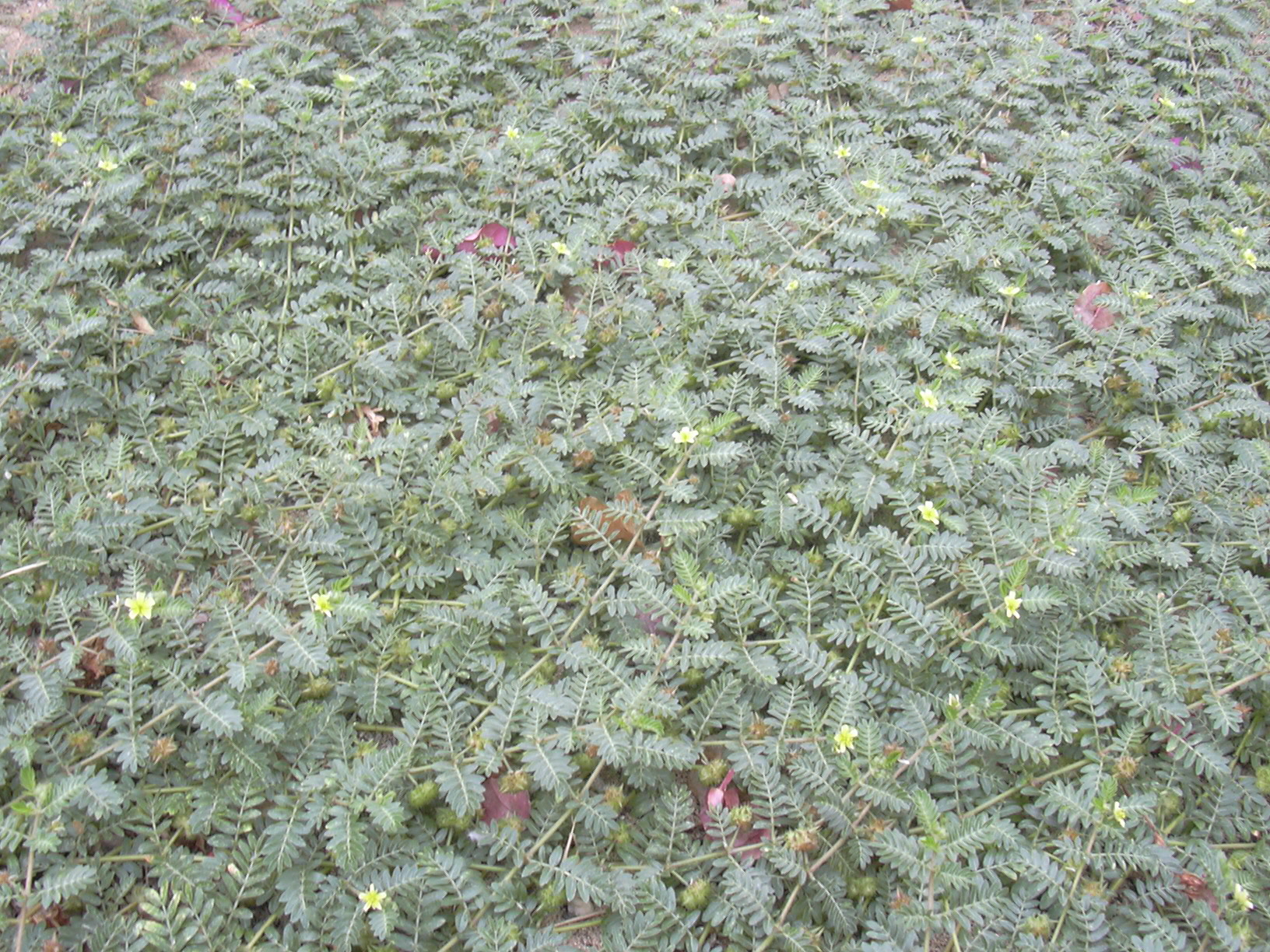 Tribulus terrestris (habit). Location: Maui, Kahului